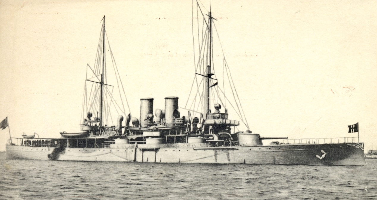 Swedish coastal deffence ship Tapperheten.